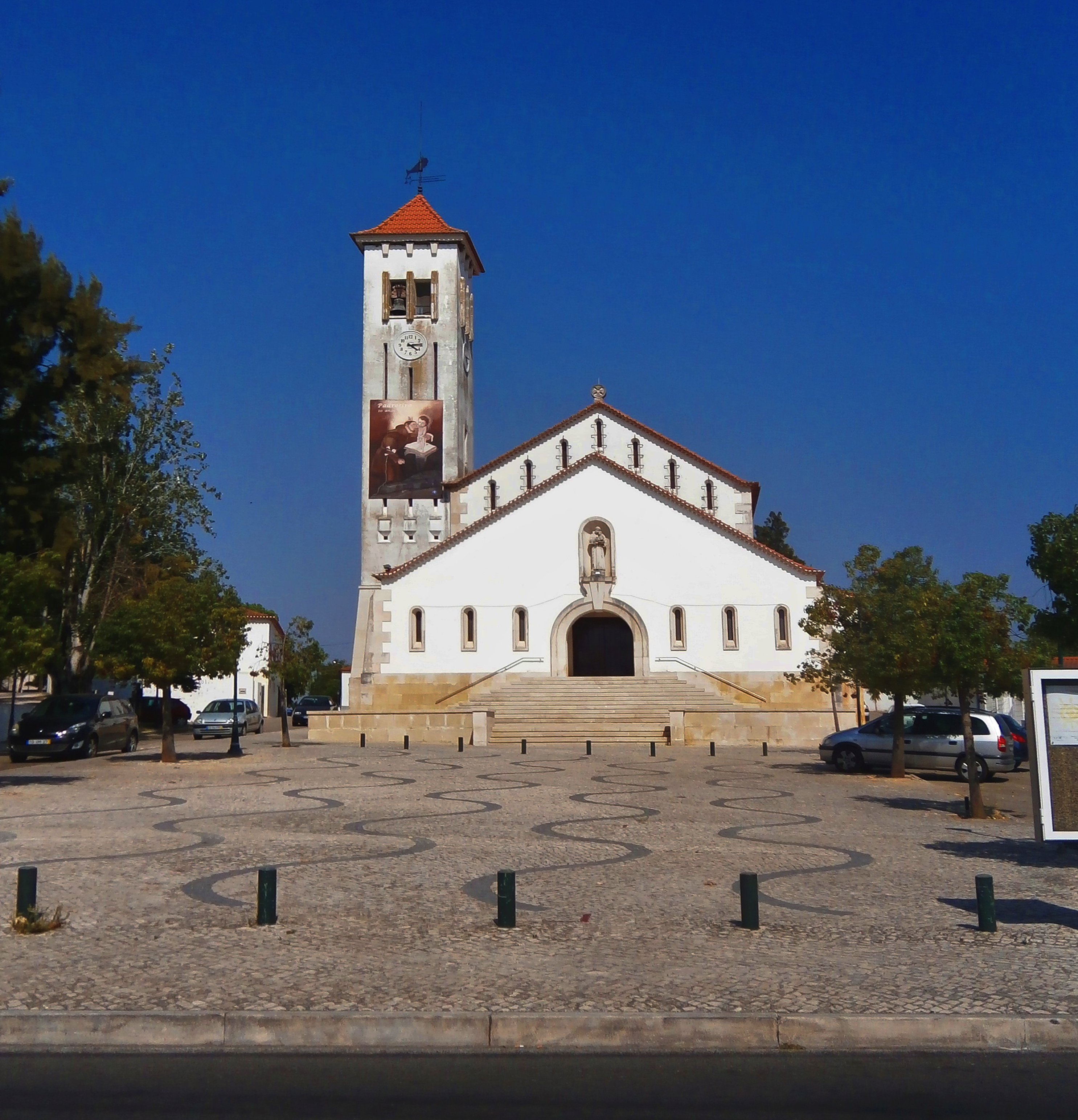 Parochial church of Riachos. Photo taken at 21 August of 2017